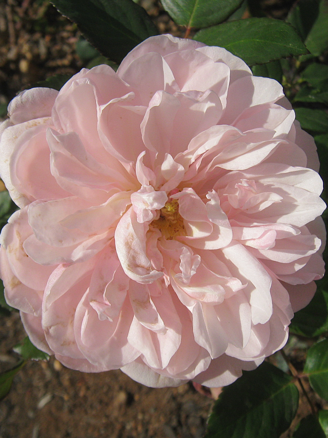 Rose 'Pink Gruss an Aachen' Kluis 1929